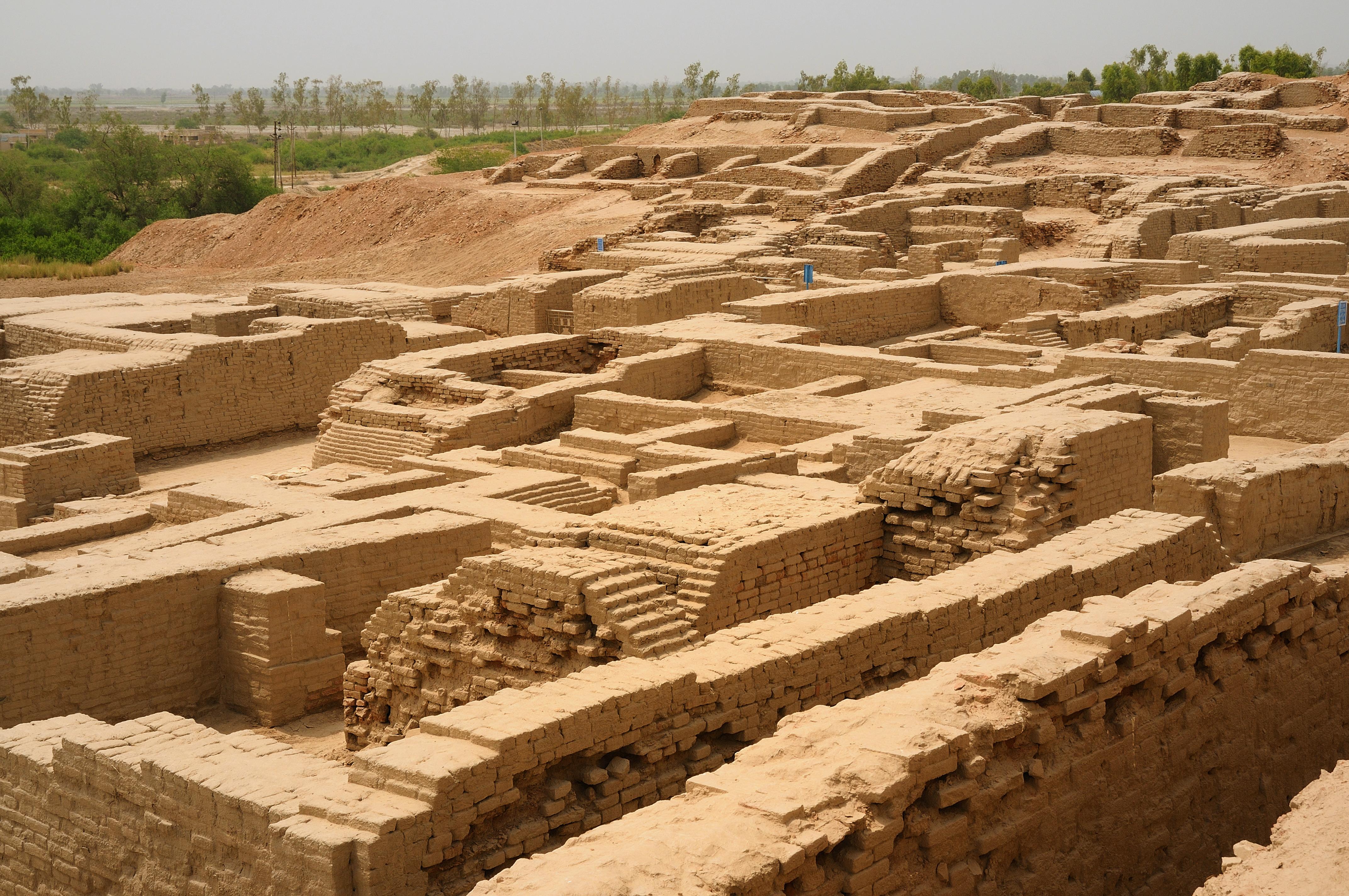 Moenjodaro This is a photo of a monument in Pakistan identified as the SD-41